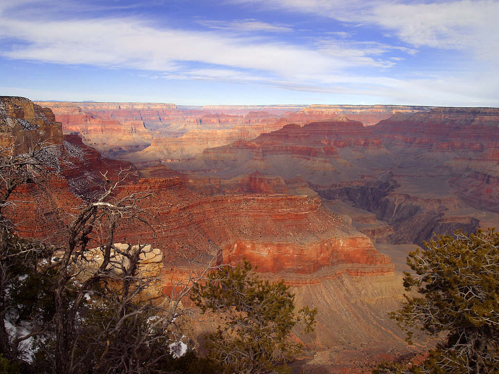 The Grand Canyon